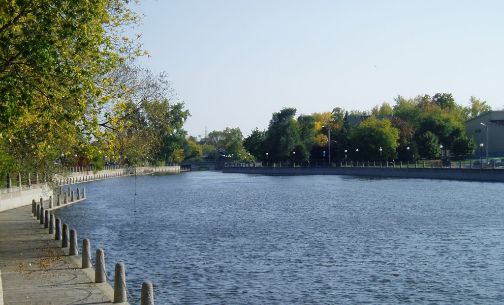 Brewery Creek (Gatineau), Western Quebec, taken by SimonP